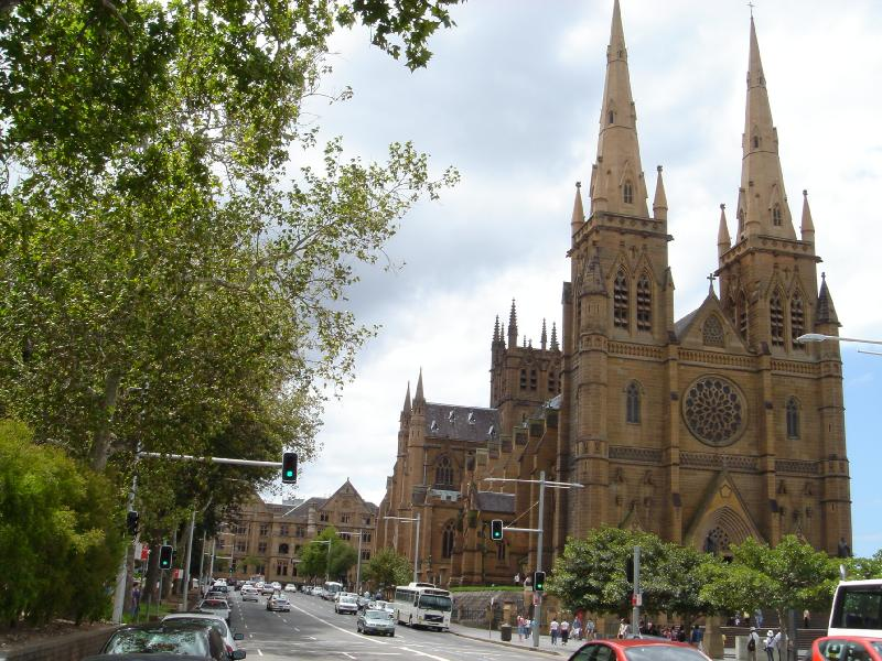 St Mary's Cathedral is the spiritual home of Sydney's Catholic community. It is the seat of the Archbishop of Sydney, and stands on the site of the first Catholic Chapel in Australia. Constructed in local sandstone, the "Gothic Revival" style of its architecture is reminiscent of the great medieval cathedrals of Europe. St Mary's is not only a great legacy from the past, however: it is vital part of the present spiritual and cultural life of the city and the nation.